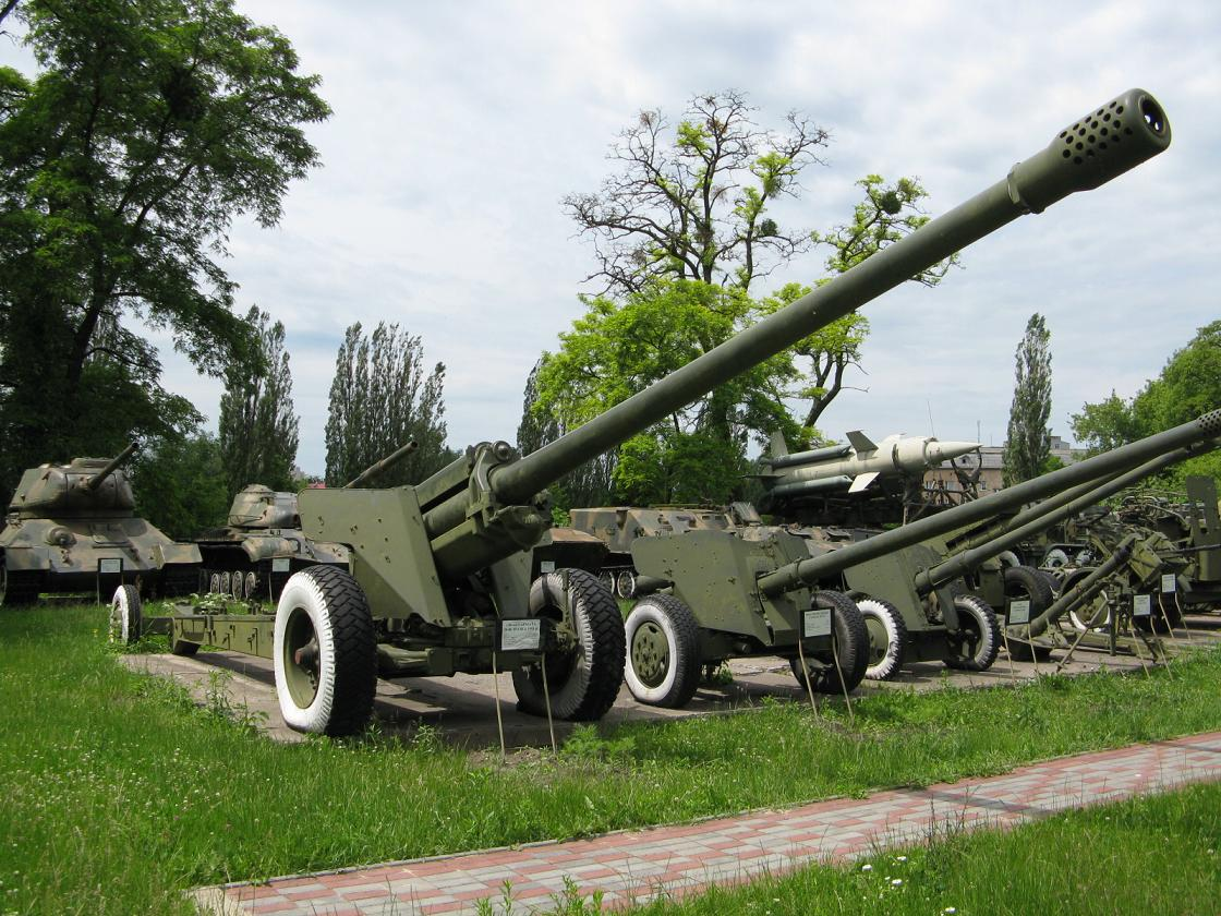 M-46, Lutsk, Volynskiy regional museum of Ukrainian army